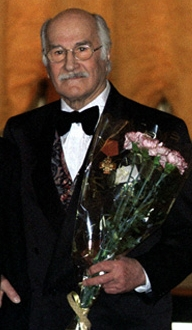 Vladimir Zeldin in Kremlin